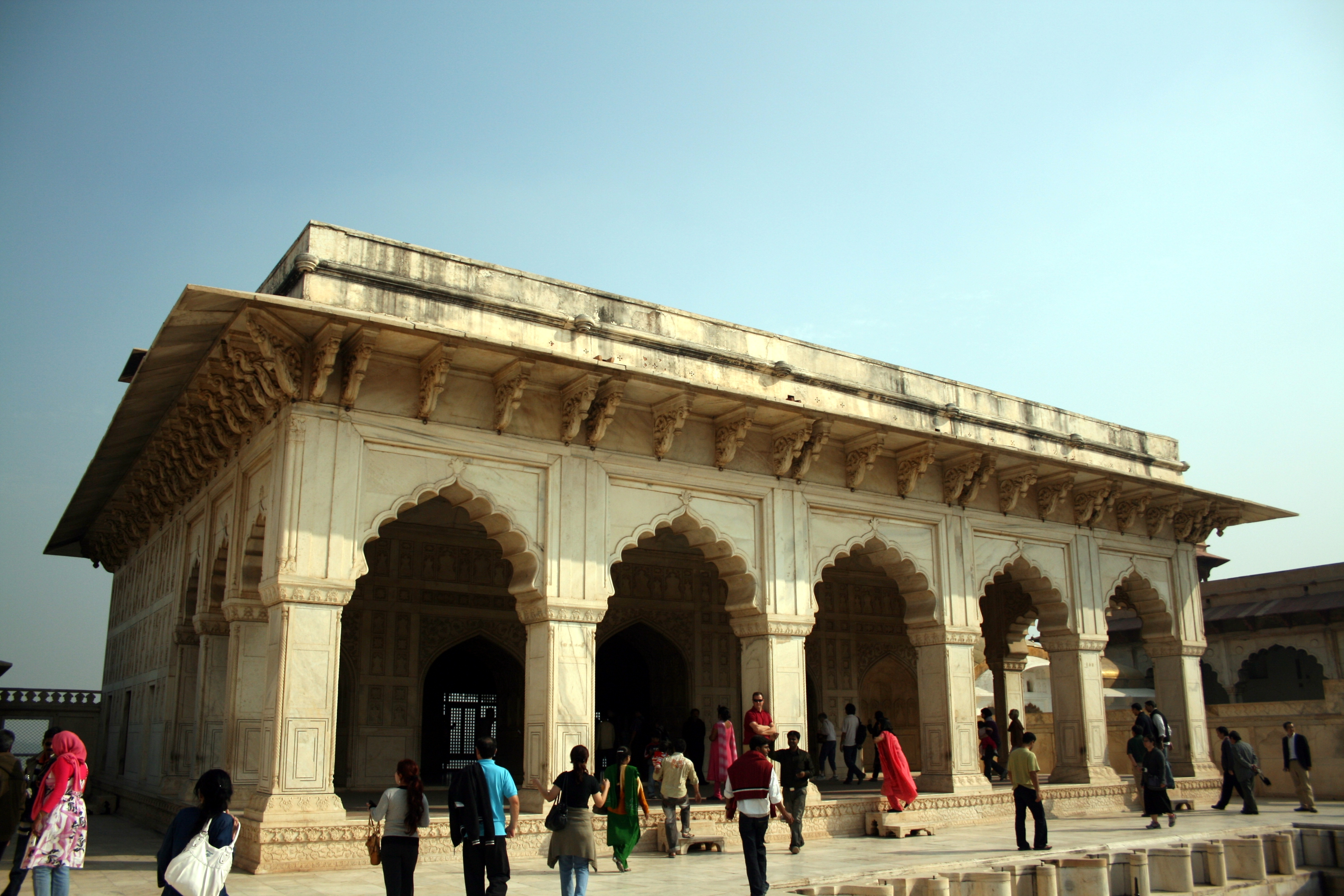 Diwan-i-Khas, Red Fort, Agra, India